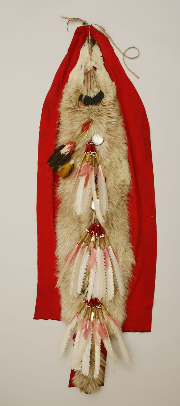 Wolf Talisman Modified by Julius Williams 1875-1885. This wolf hide talisman was Julius Williams' wéyekin or personal medicine. It is made from a “cased” whole wolf skin minus its legs. It was passed down to Julian Williams who added the feather rosettes. A hand hold of buckskin runs through the nose openings as a means to carry the talisman during dances or ceremonies. Wolf power is highly desired among the Nez Perce because of warrior skill, courage and hunting prowess. Wolf skin (Canis lupus), wool, mirrors, feathers, buttons, brass bell. L 171.0, W 56.0 cm Nez Perce National Historical Park, NEPE 8833